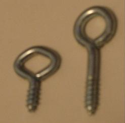 Photo of two eyebolts taken with my digital camera, 6 July, 2006